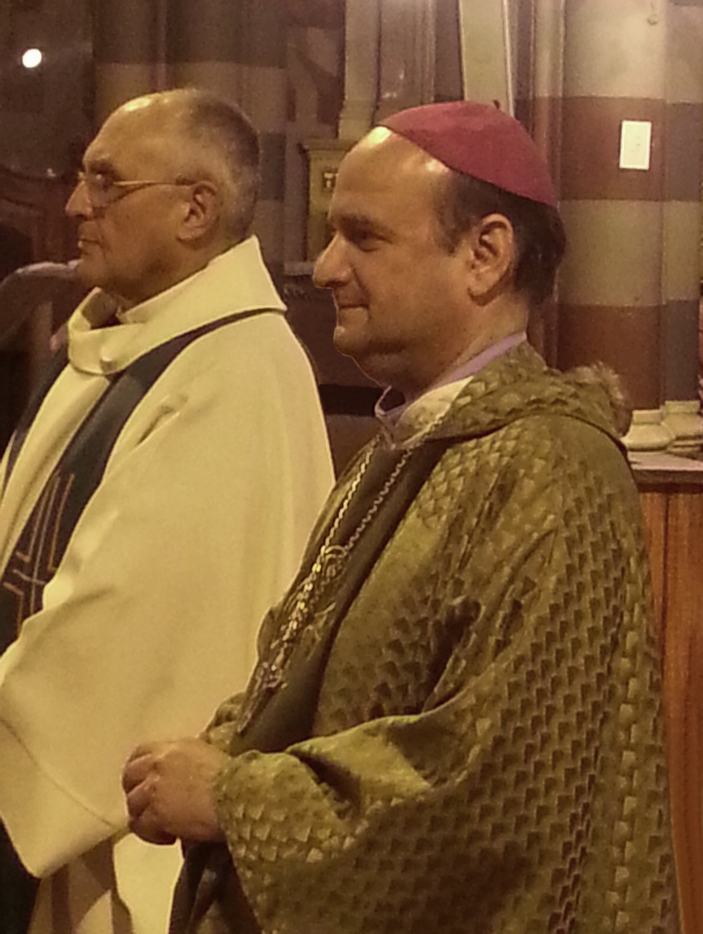 In the foreground, bishop Enrique Eguía Seguí. Titular Bishop of Cissi (2008). Auxiliary Bishop of Buenos Aires (2008).